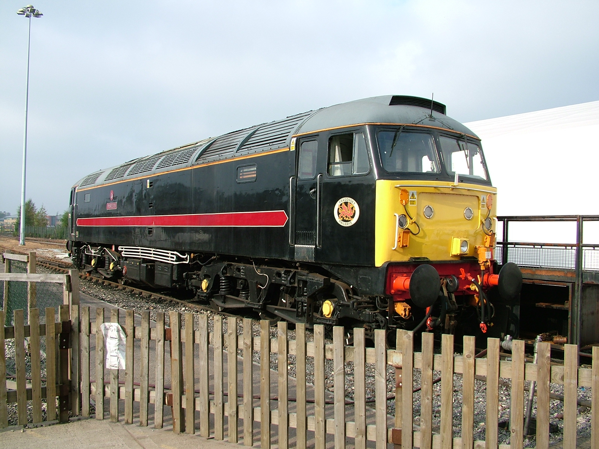 47715 Poseidon British Rail Class 47.7a locomotive - National Railway Museum - York By and copyright Tagishsimon 15th October 2005